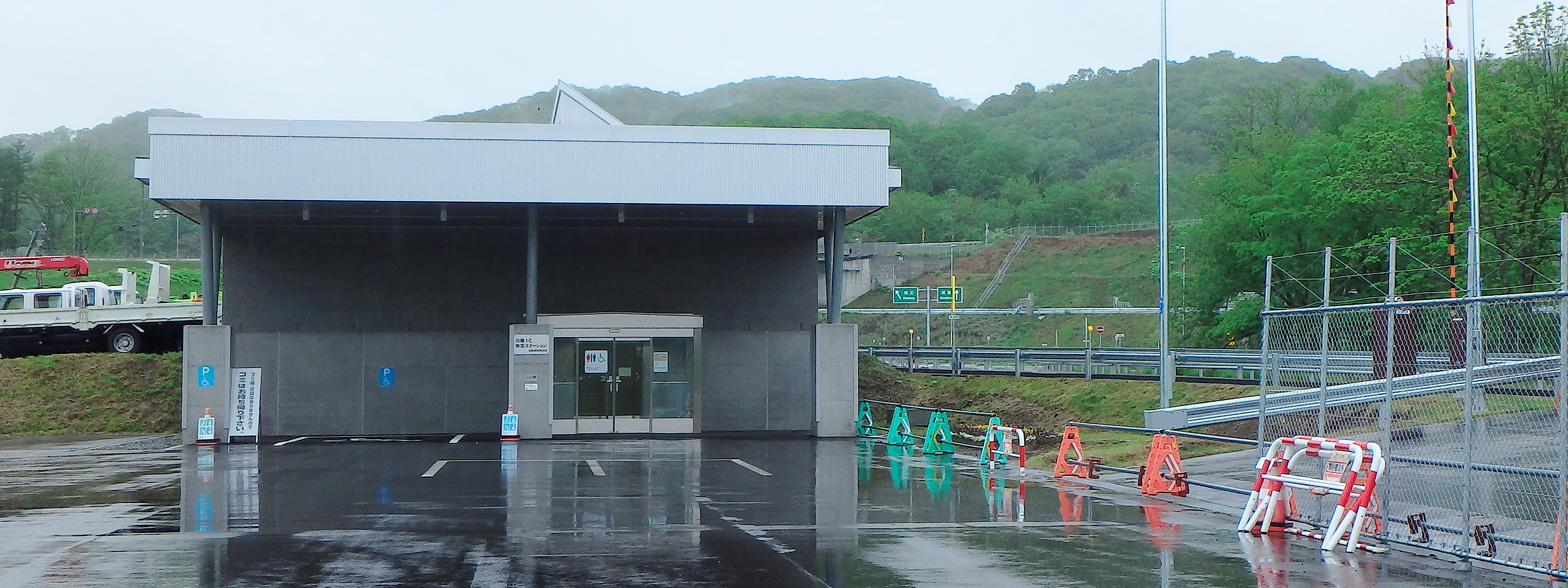 Shiranuka Inter Change,Hokkaido prefecture,Japan